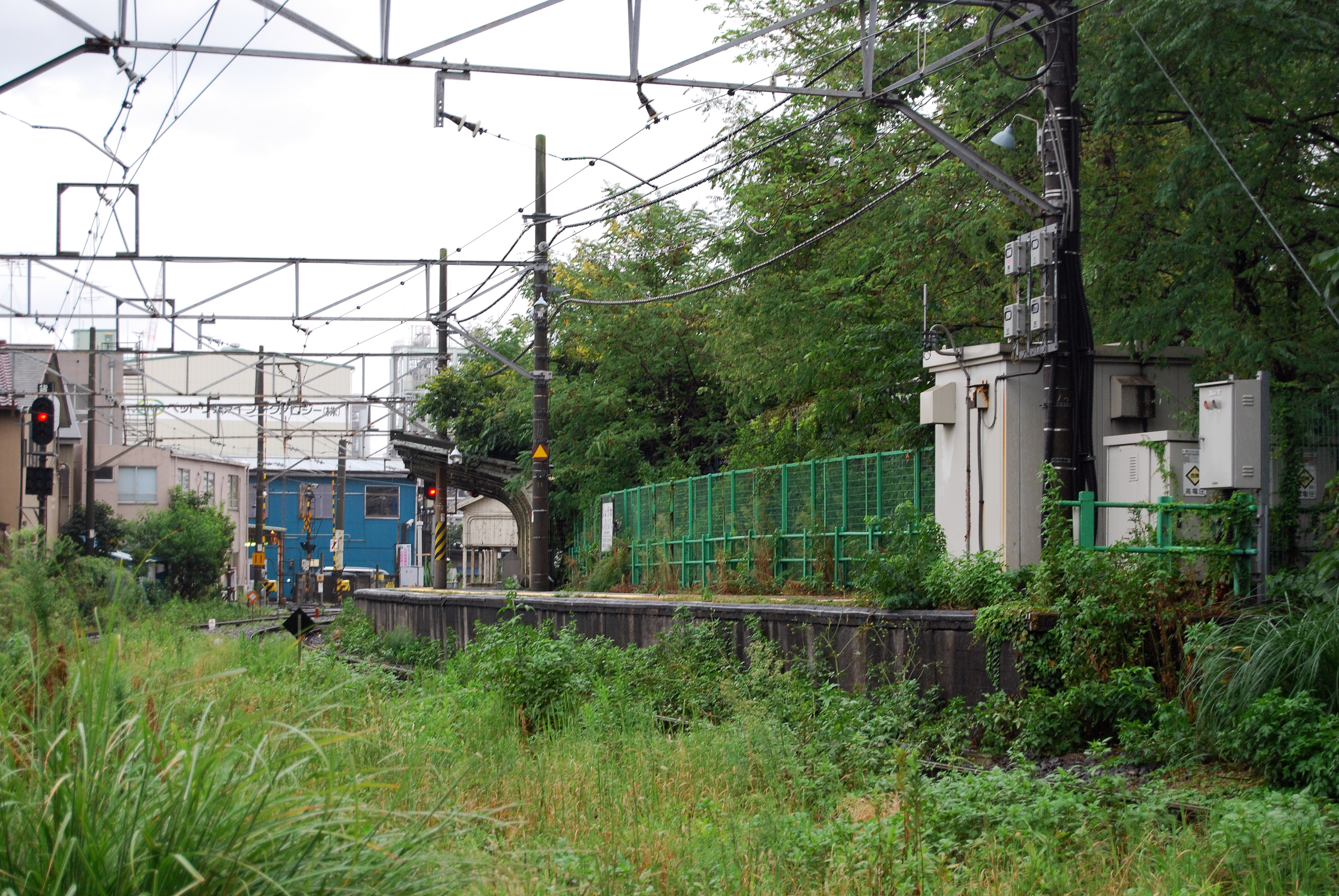 Showa Station platform